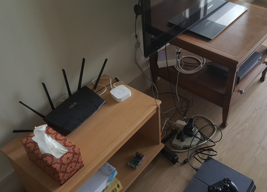 It's the home network of an apartment, showing the key backbone components as well as a few member devices